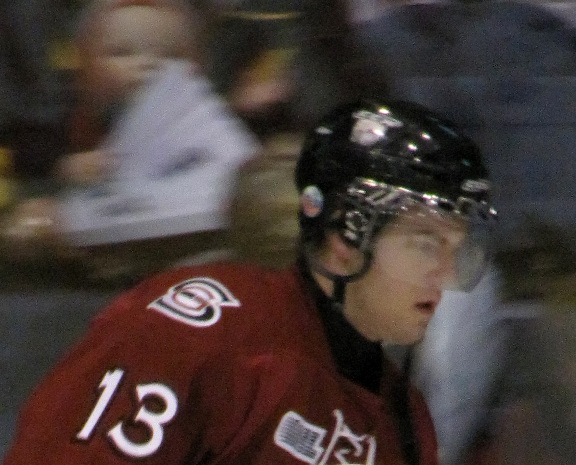 Peter Holland of the Guelph Storm warming up